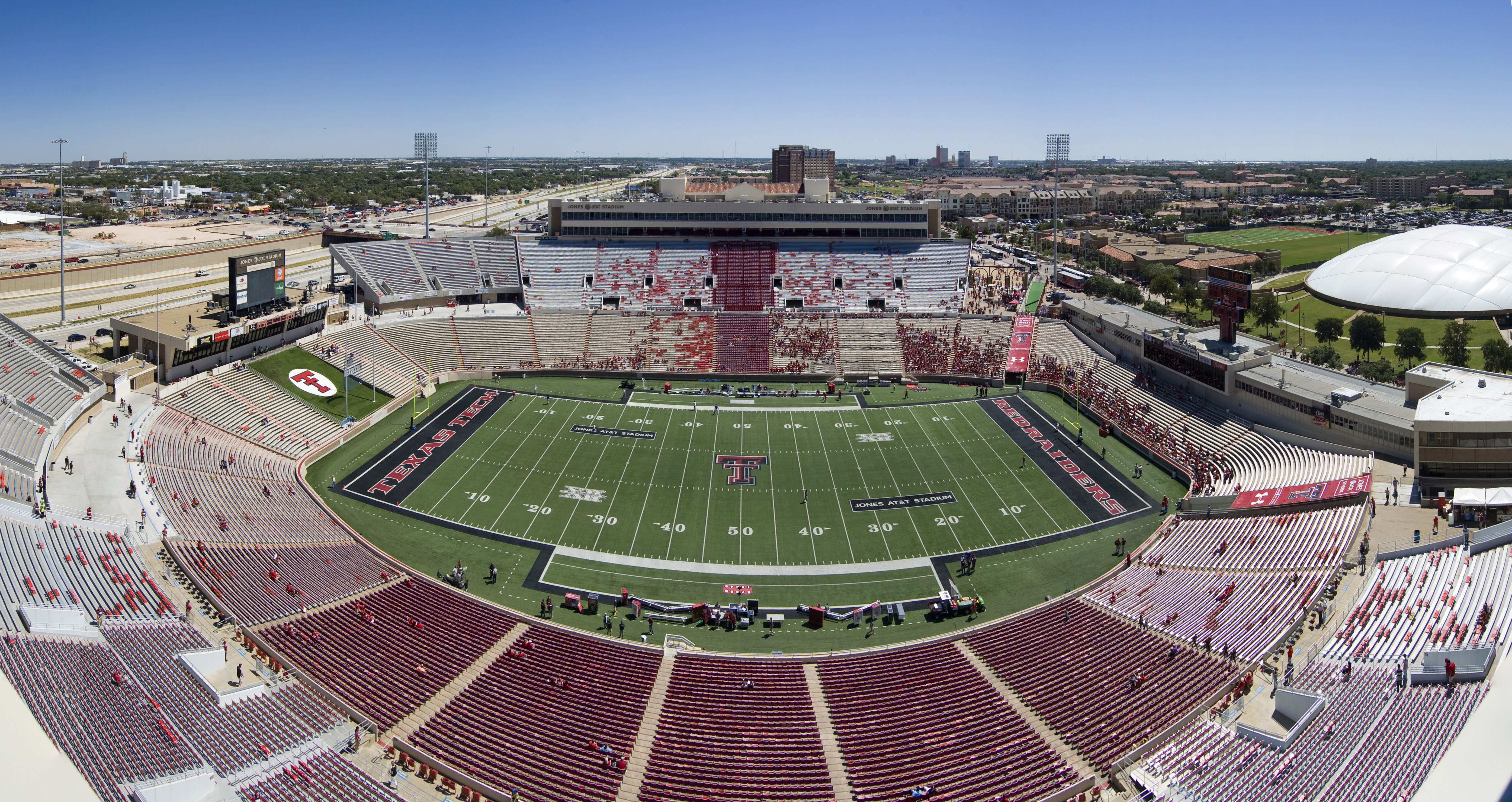 Jones AT&T Stadium in Lubbock just before kickoff....well a few hours anyways